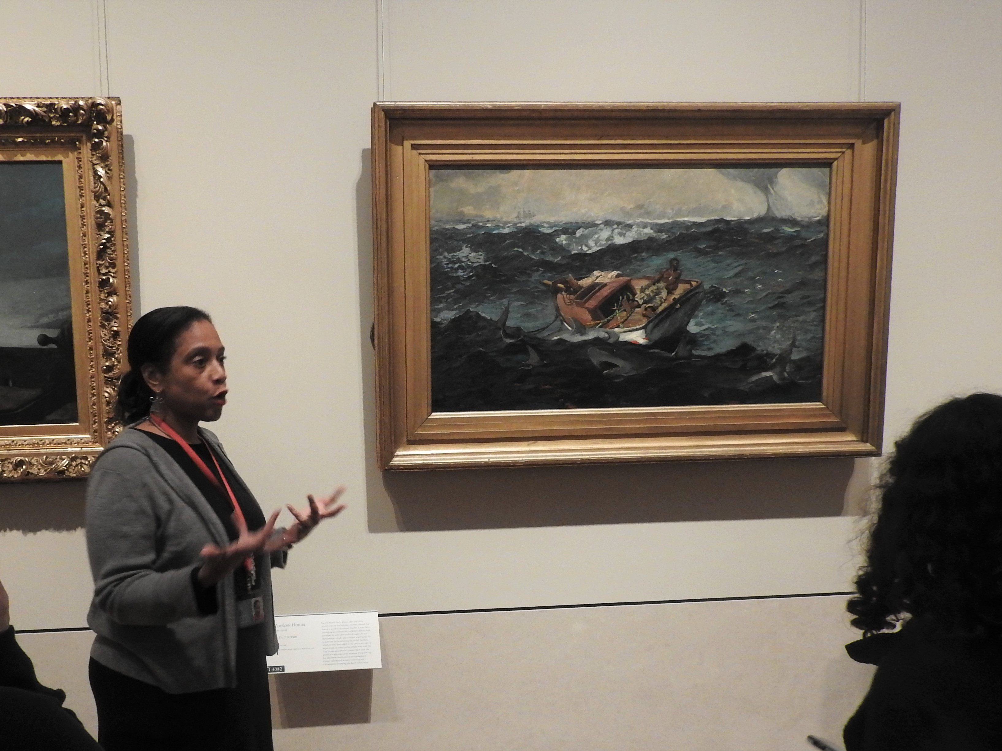 Editors were guided on a tour of the American wing